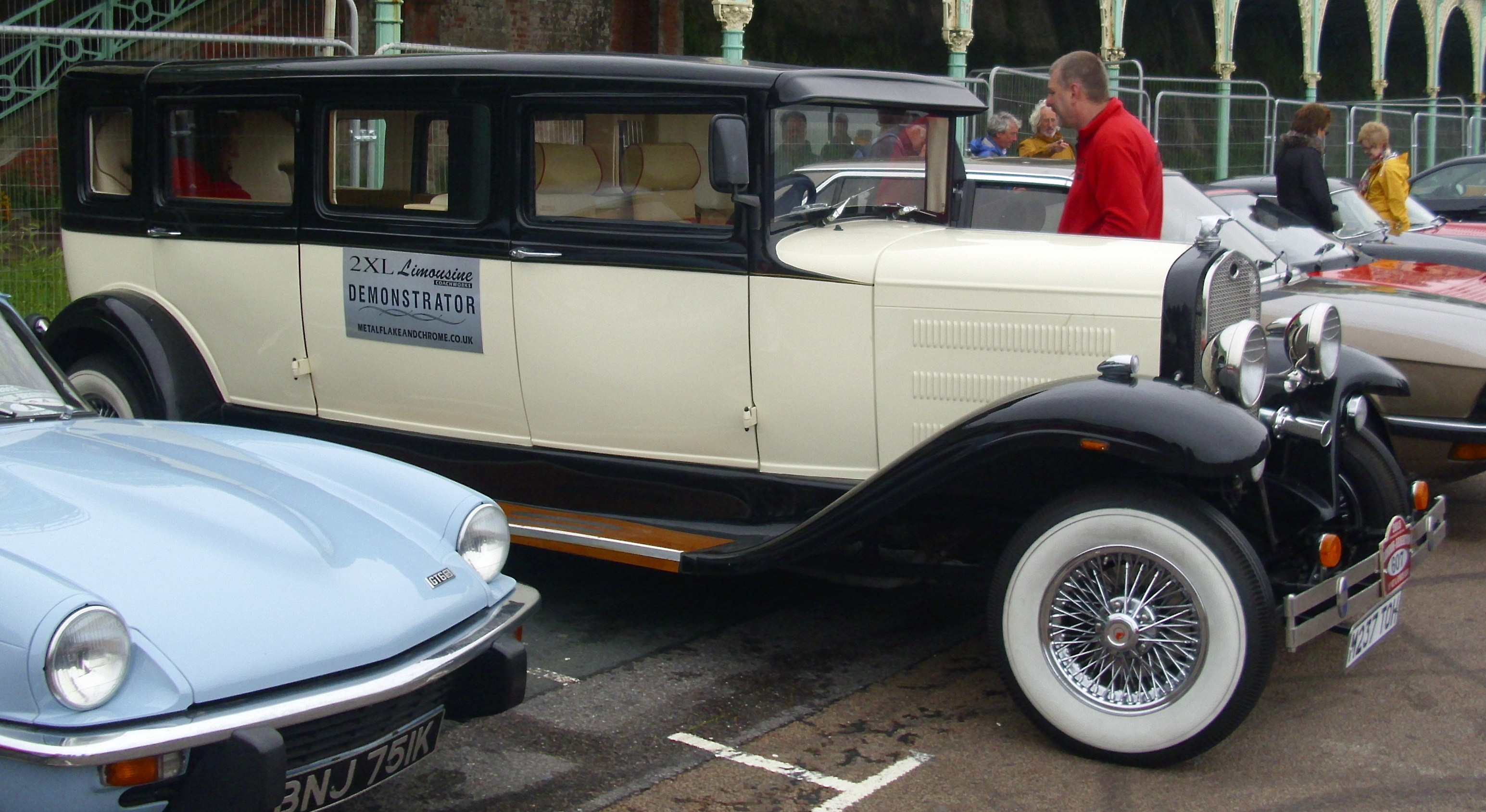 Vintage Branford Classic 2015